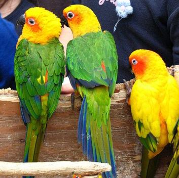 Parrots and children at Kobe Kachoen (Kobe Flowers and Birds Garden) in Kobe, Hyogo prefecture, Japan.